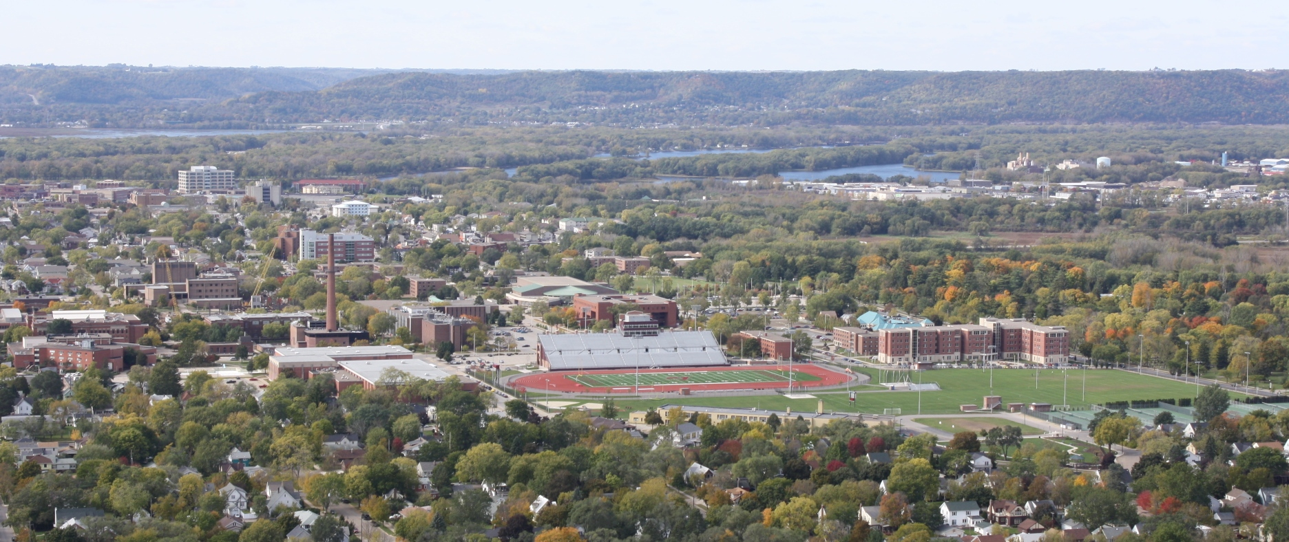 Looking down at the University of Wisconsin-La Crosse campus from Granddad Bluff in La Crosse, Wisconsin